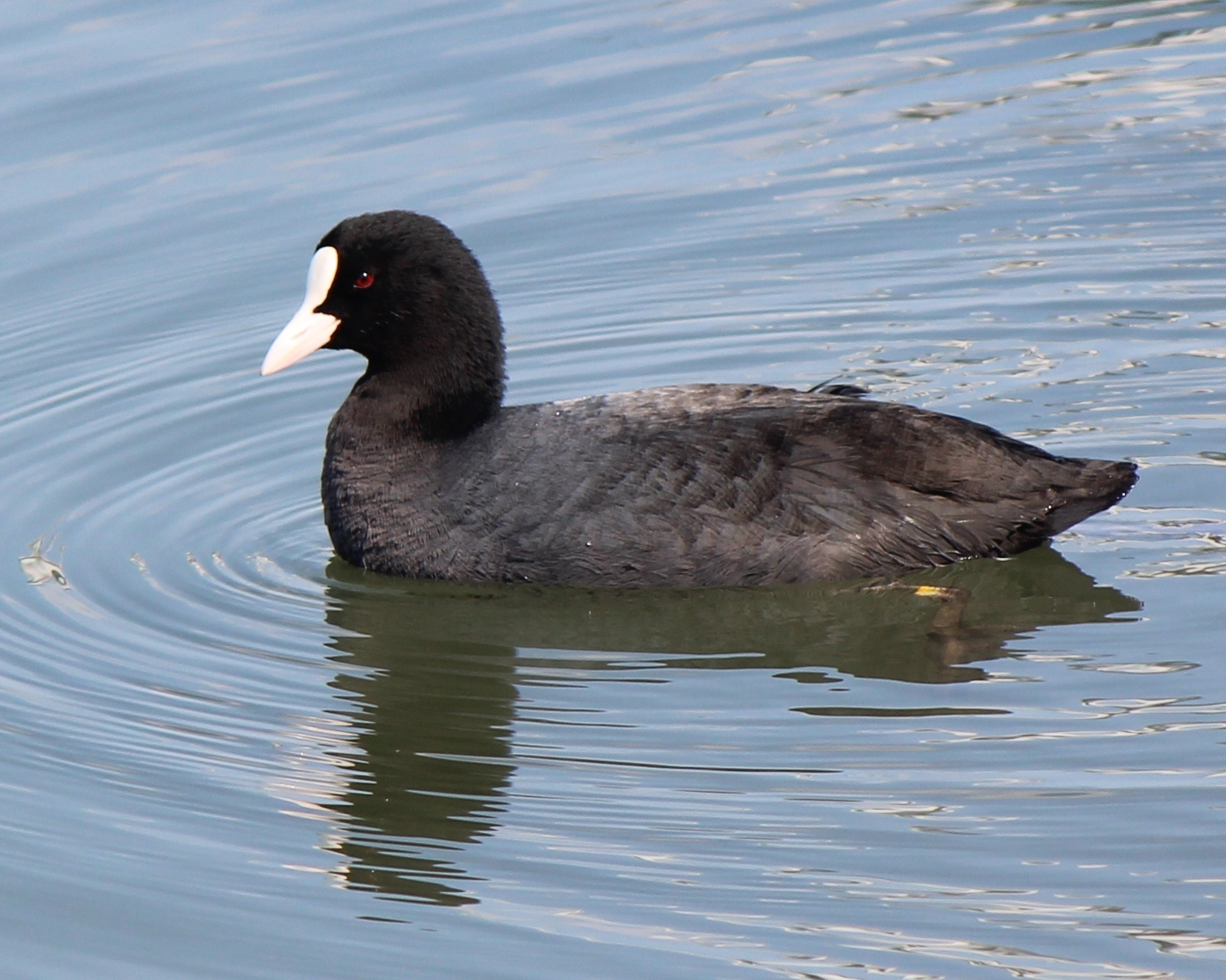 Fulica atra (Eurasian Coot) in Kisosaki, Mie